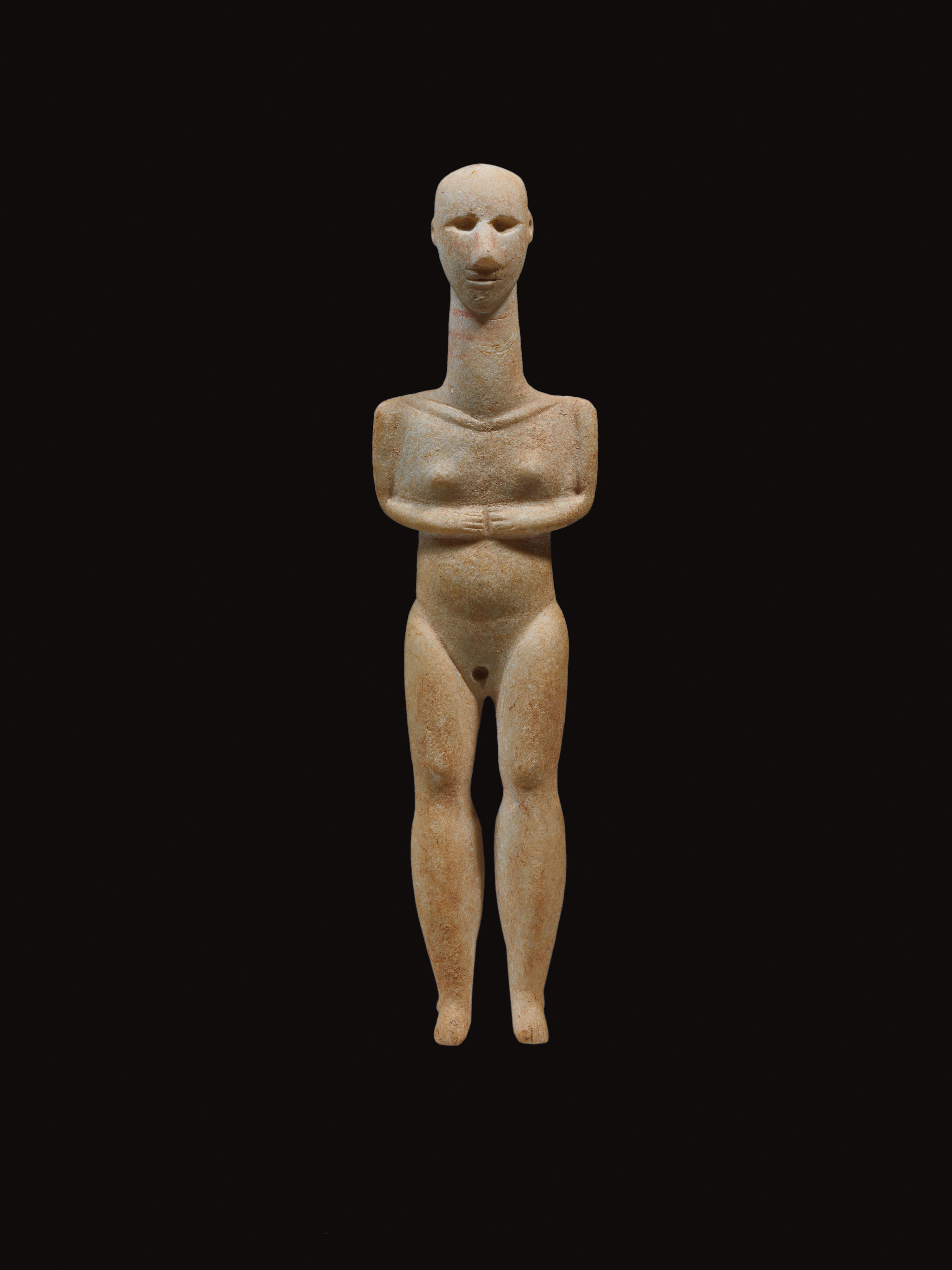 This is a photograph of an ancient cycladic marble idol.